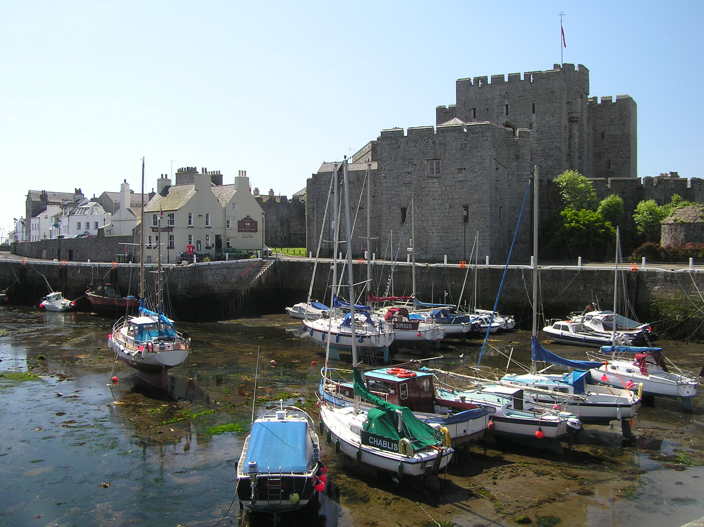 Castle Rushen, seen from across Castletown Harbour at low tide. Also in view to the left is the Gluepot Pub. Picture by Paul Dyer, June 2005.